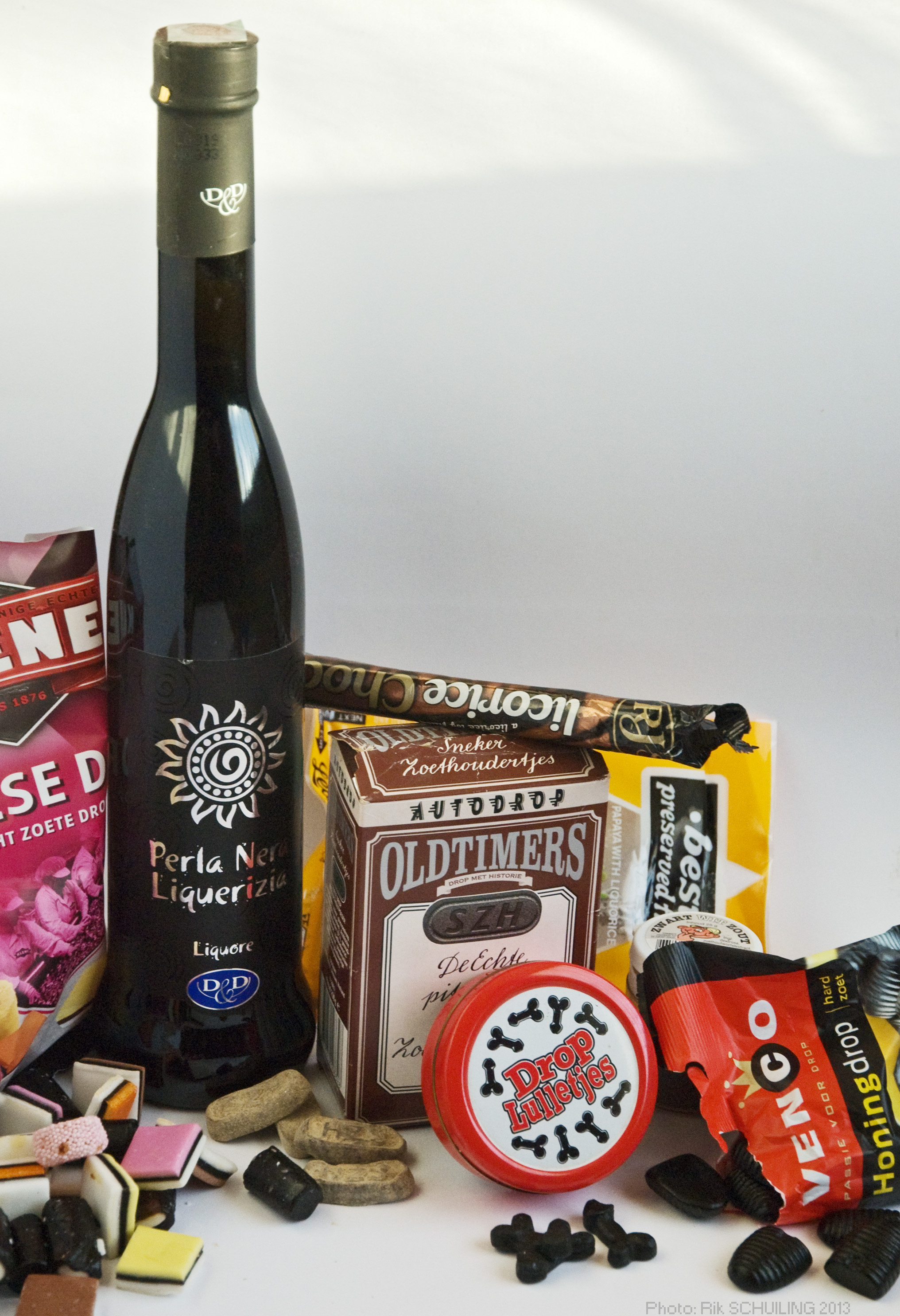 Various liquorice products.